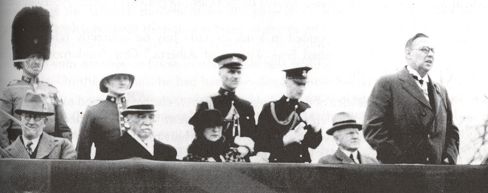 Alberta Premier Richard Reid speaking on the occasion of King George V's silver jubilee. Sitting (L to R): Edmonton mayor Joseph Clarke, Lieutenant Governor William L. Walsh, Mrs. Walsh, Chief Justice of the Supreme Court of Alberta Horace Harvey. Standing (L to R): Col. P. Anderson, Col. F. C. Jamieson, Lt. Day, Capt. Sims, Reid.